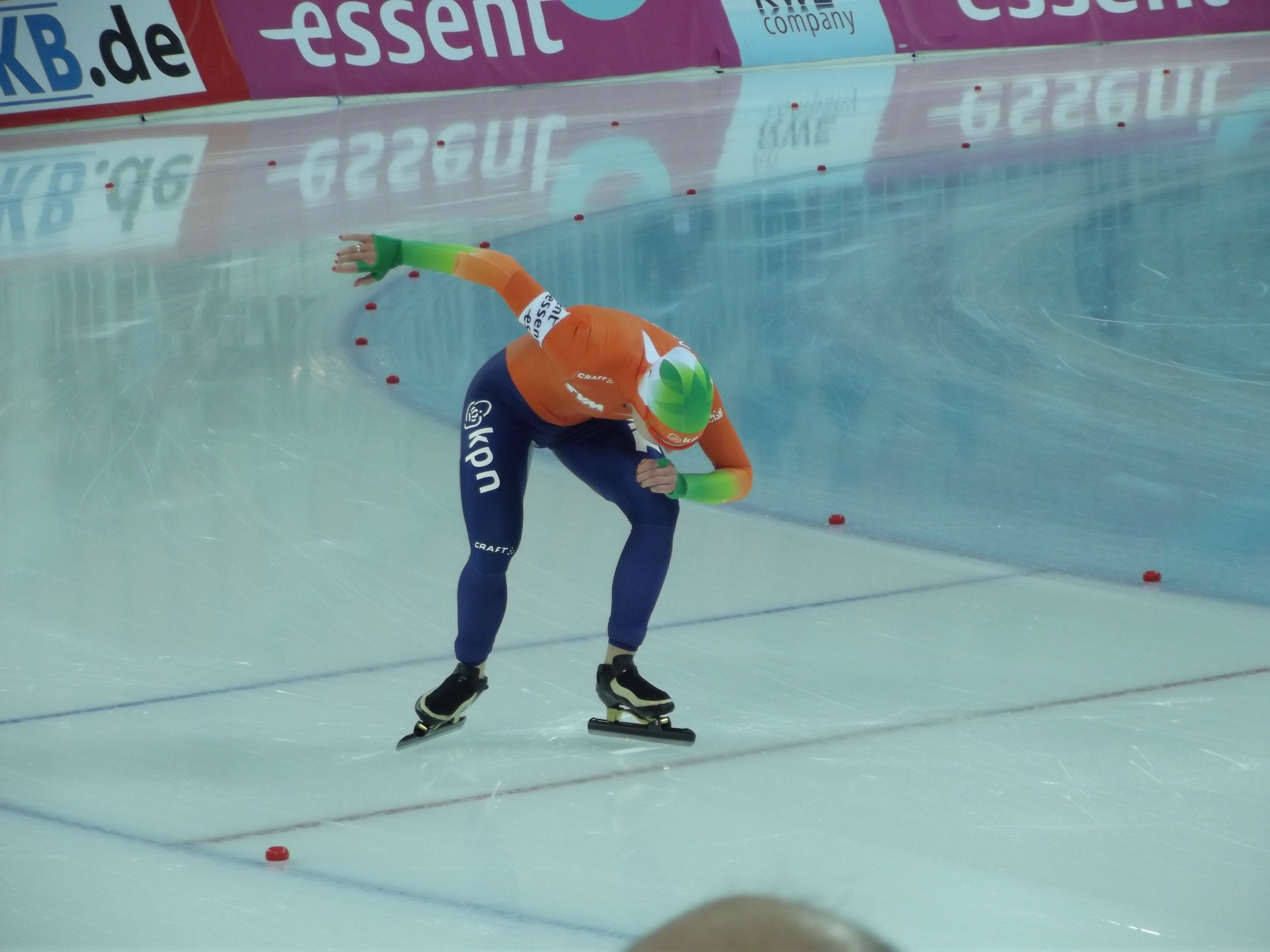 2013 World Single Distance Speed Skating Championships